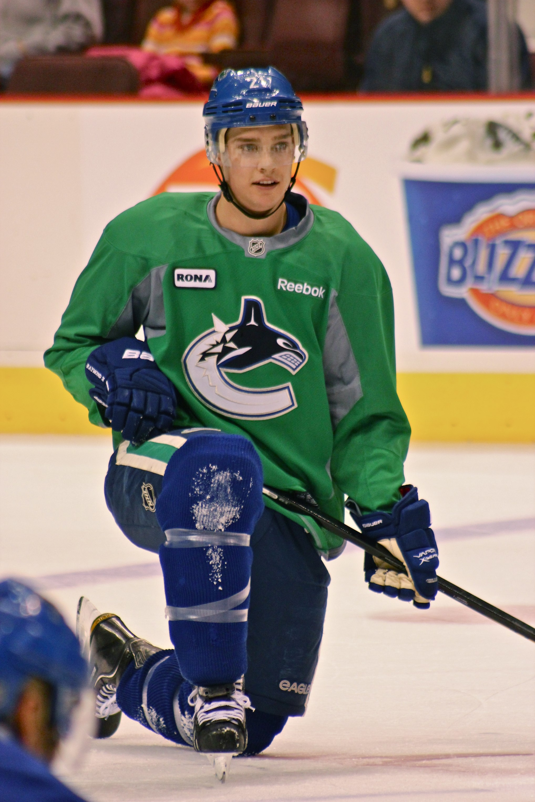 Mason Raymond at Vancouver Canucks team practice in 2012.